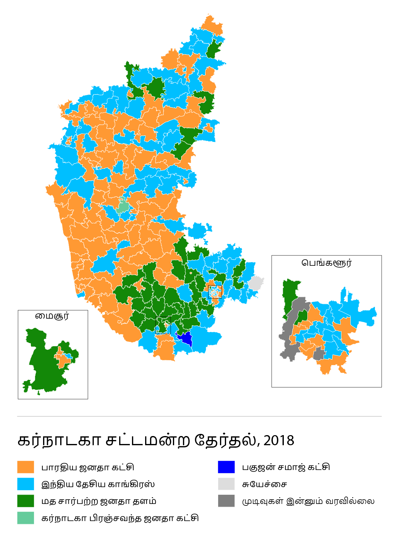 A map showing the results of the Karnataka Legislative Assembly election, 2018, in Tamil.